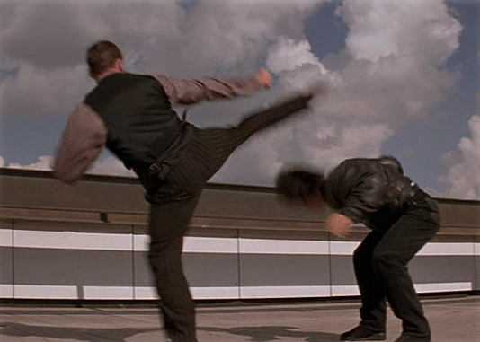 Fight Scene Example 2